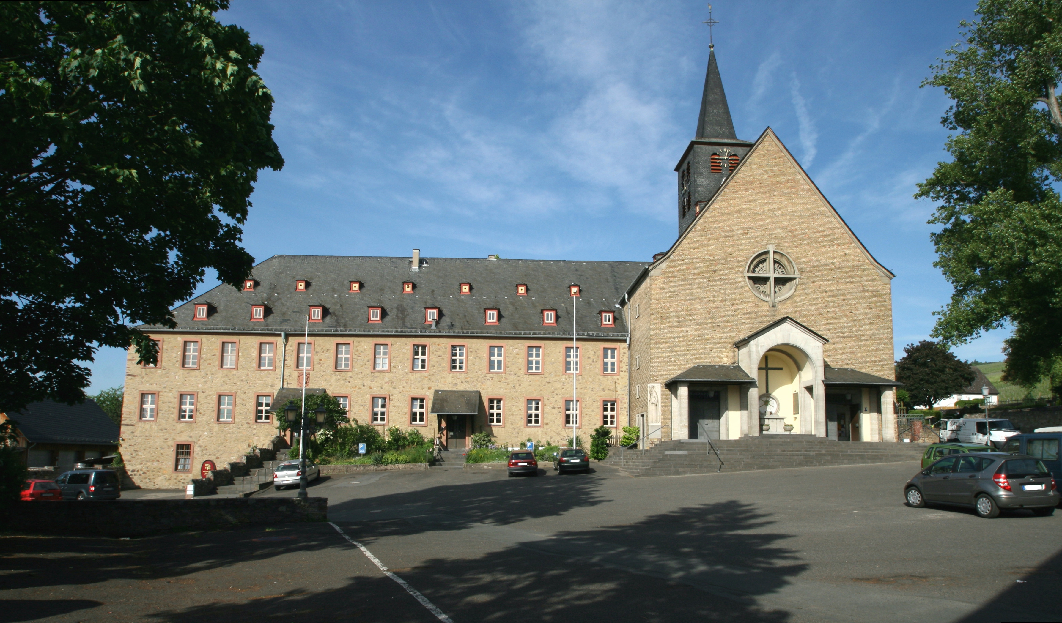 Catholic parish and pilgrimage church St. Hildgard (Eibingen), Rüdesheim am Rhein, Germany